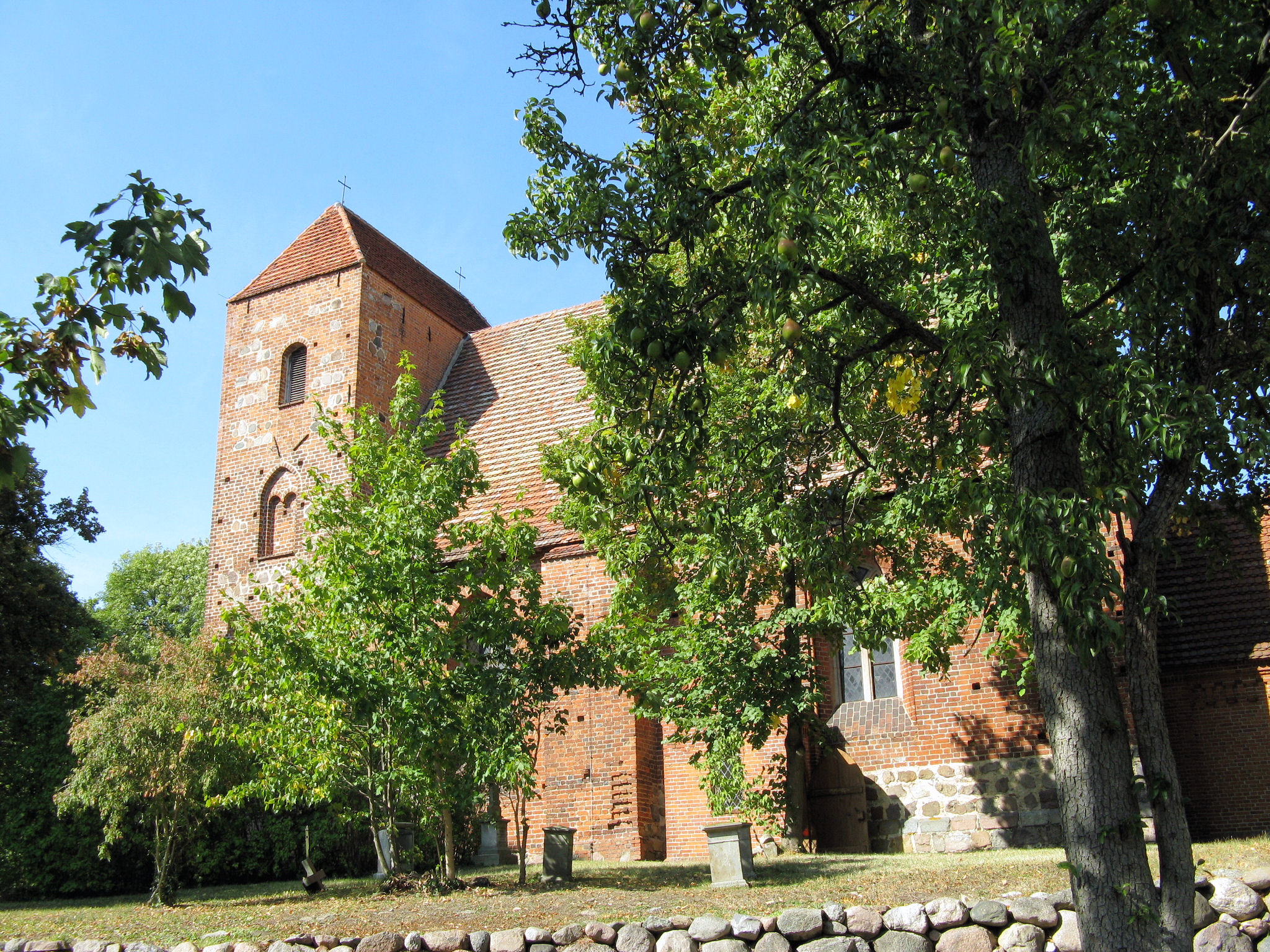 Church in Hohen Mistorf, disctrict Güstrow, Mecklenburg-Vorpommern, Germany